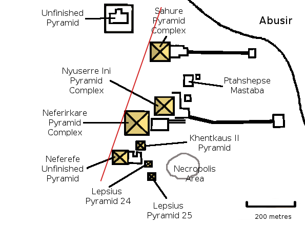 Map of Abusir